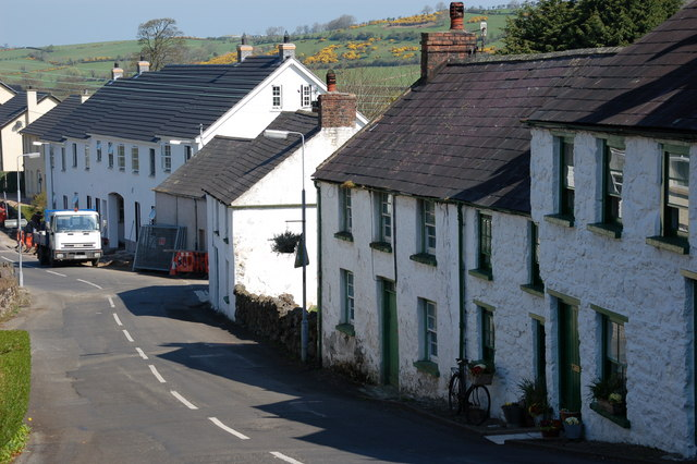 Glenoe village (3) See 398570. This is the view down the hill with the traditional Glenoe cottages on the right.